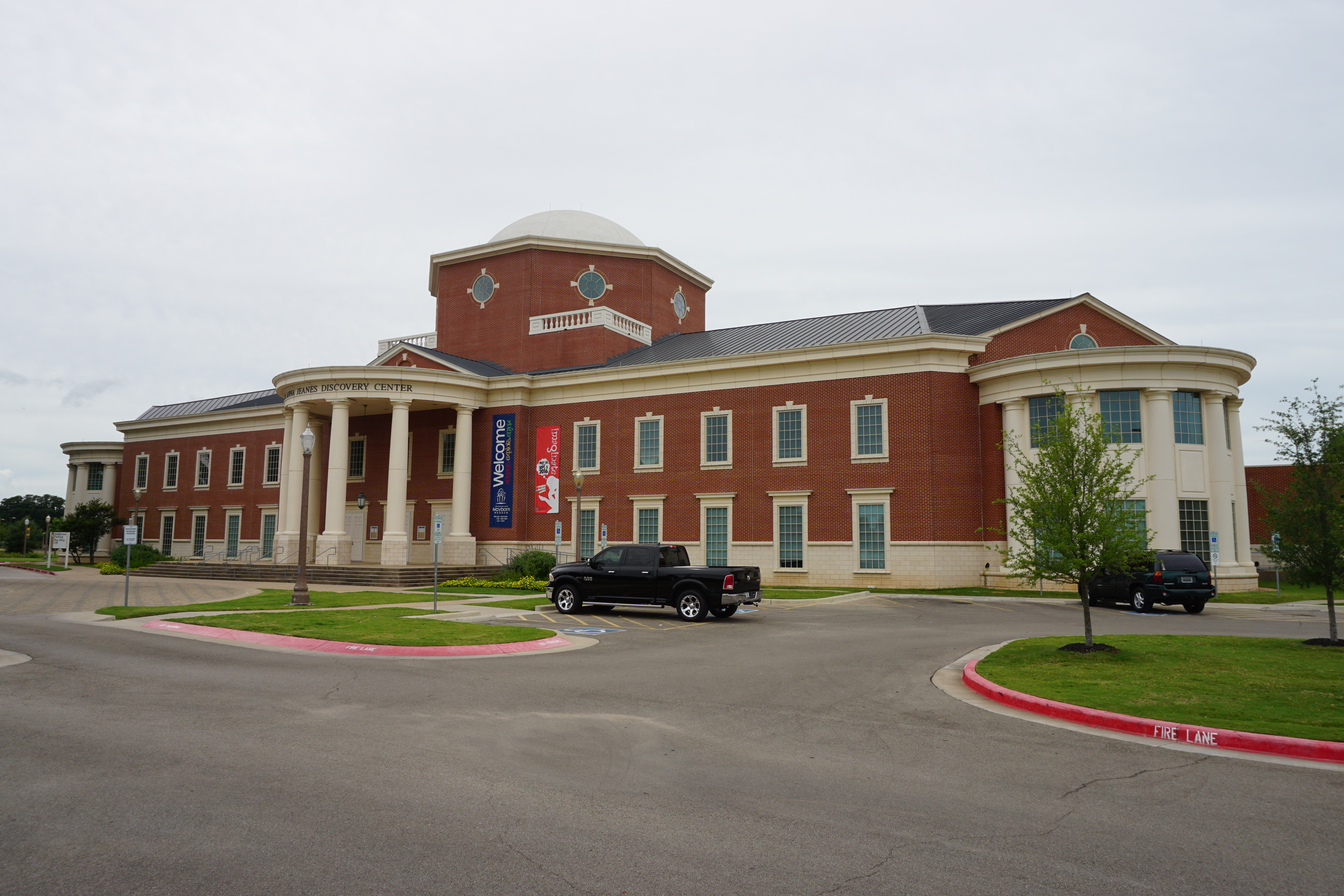 The Mayborn Museum Complex on the campus of Baylor University in Waco, Texas (United States).